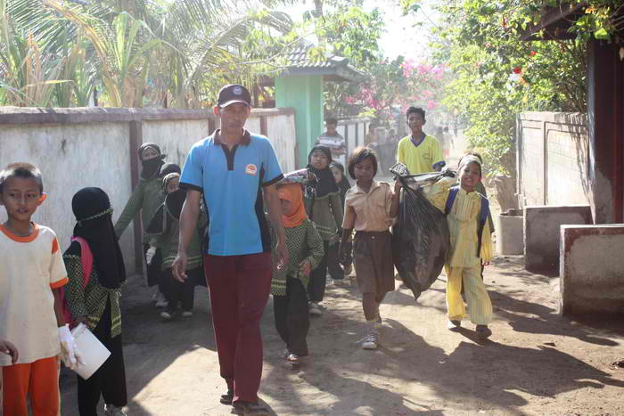 Clean up day